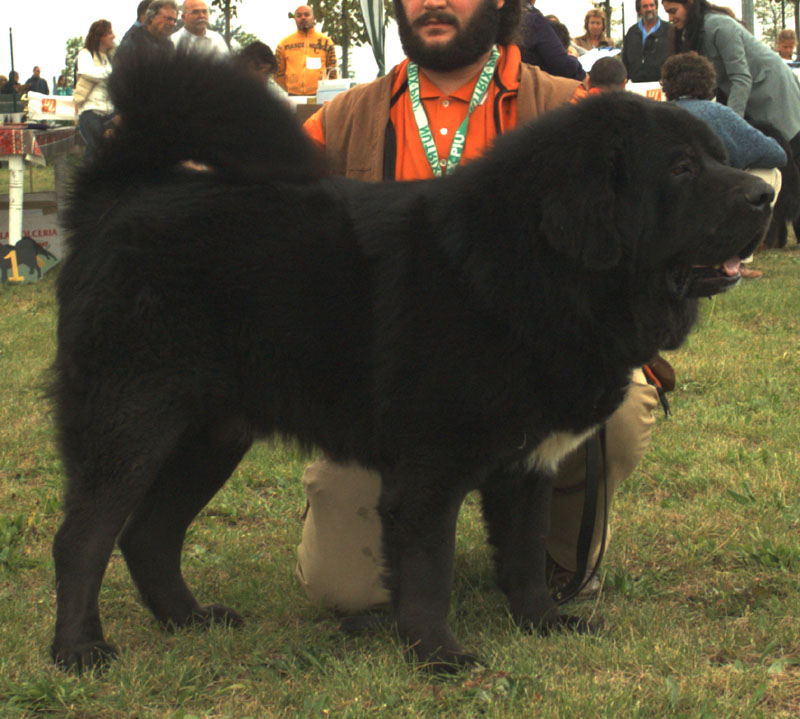 Wang Du Rivoira TM male 4 years old